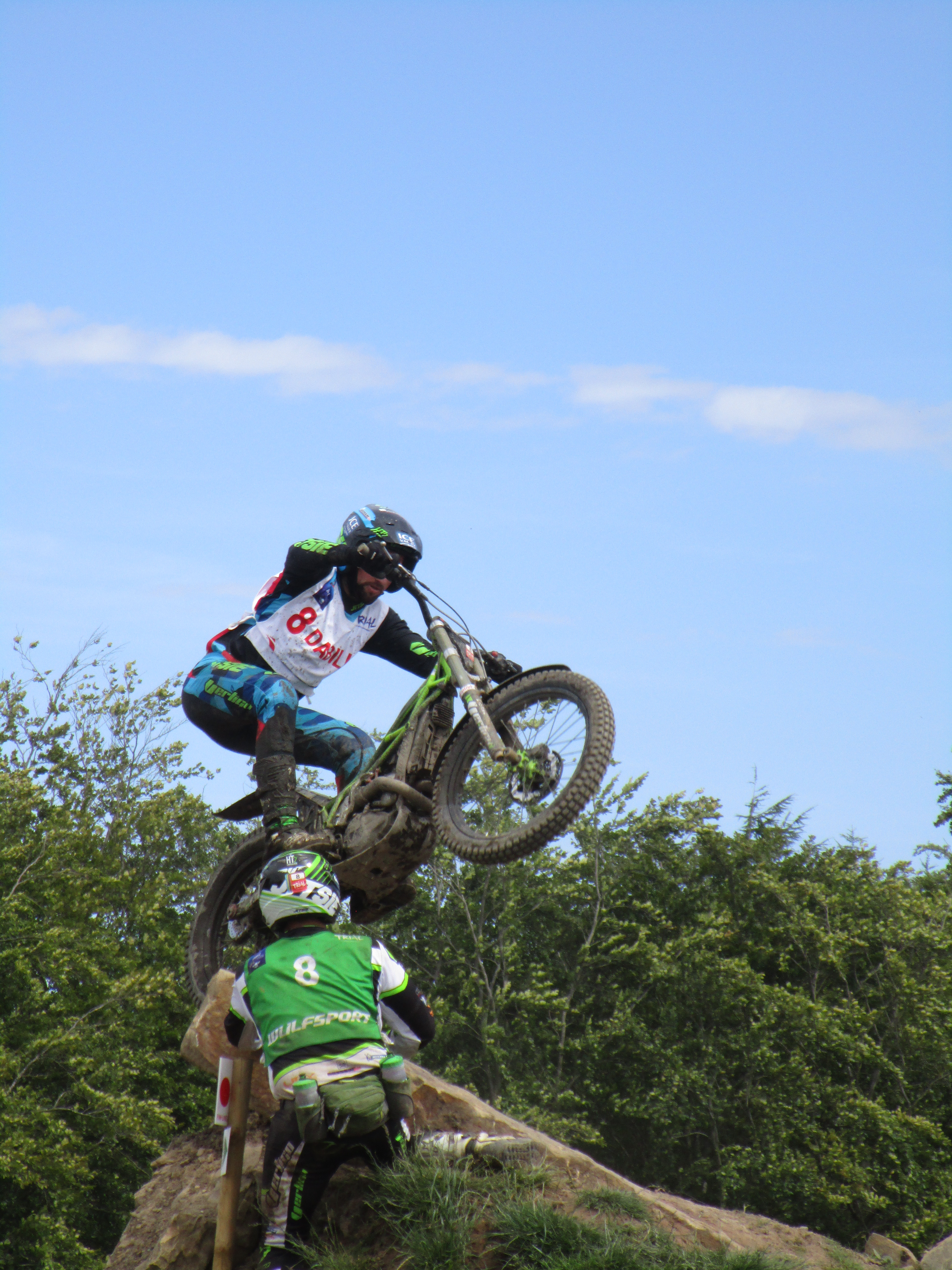 FIM World Trials 2016 Tong, UK